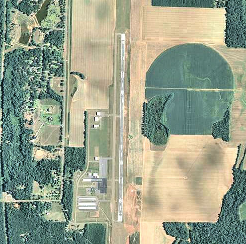 USGS digital orthophoto of Perry-Houston County Airport in the U.S. state of Georgia